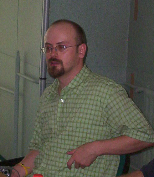 Slovak author Juraj Červenák, photograph taken at public event Parcon 2007